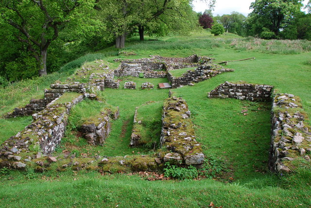 Roman Bath House Situated close to the Temple,in Lydney Park.